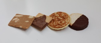 Kambly biscuits